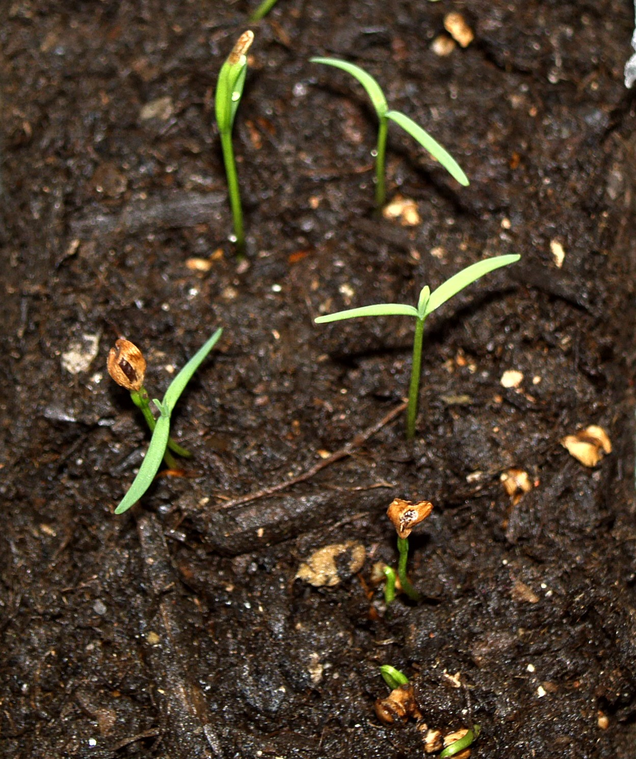 ~one-two weeks old Metasequoia glyptostroboides.